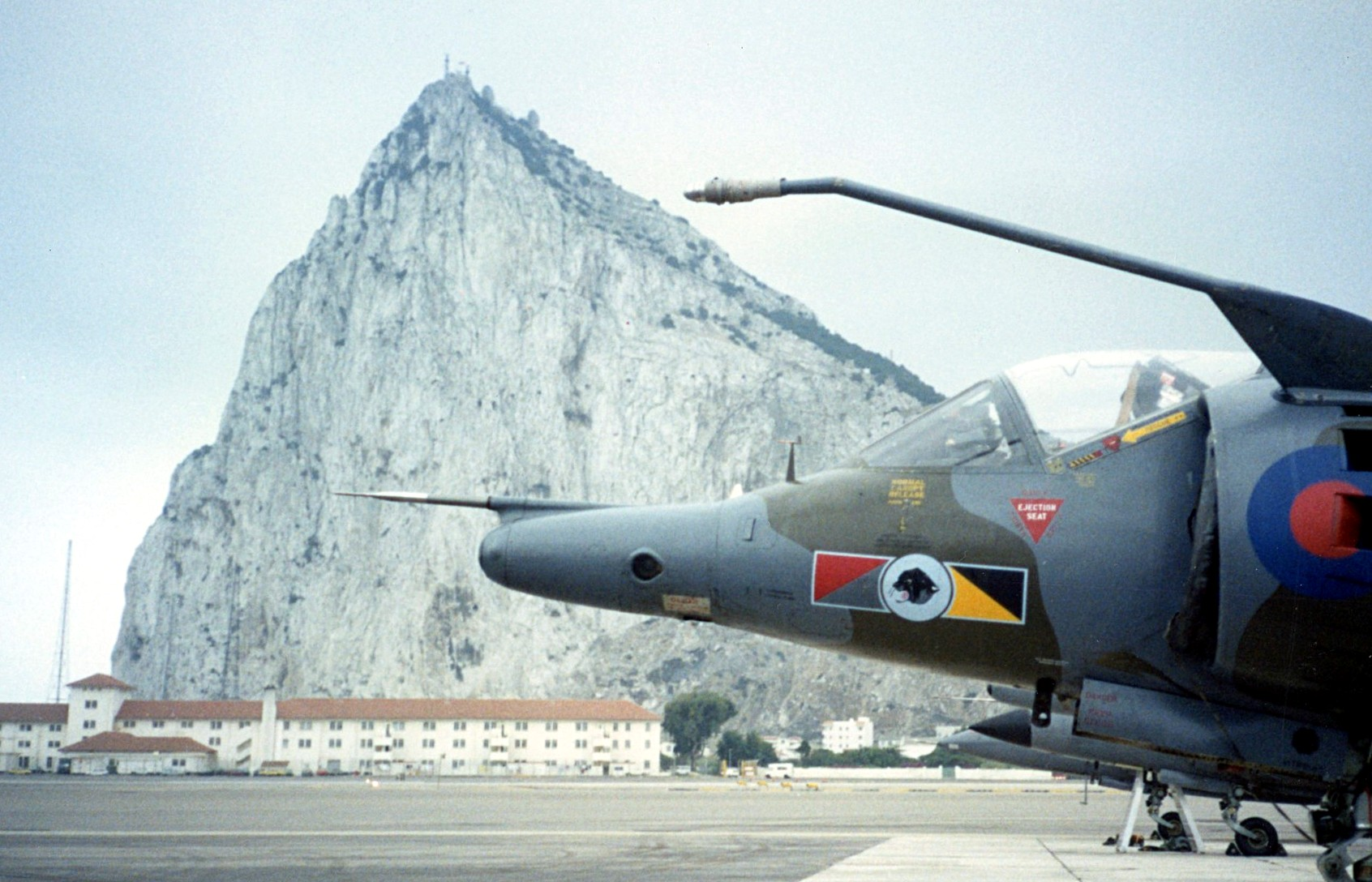 RAF Gibraltar, Harrier GR3, 233 OCU (now 20RSqn), in front of the rock on the Spanish side of the runway.